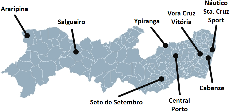 Map showing the cities who have teams playing the Campeonato Pernambucano 2010